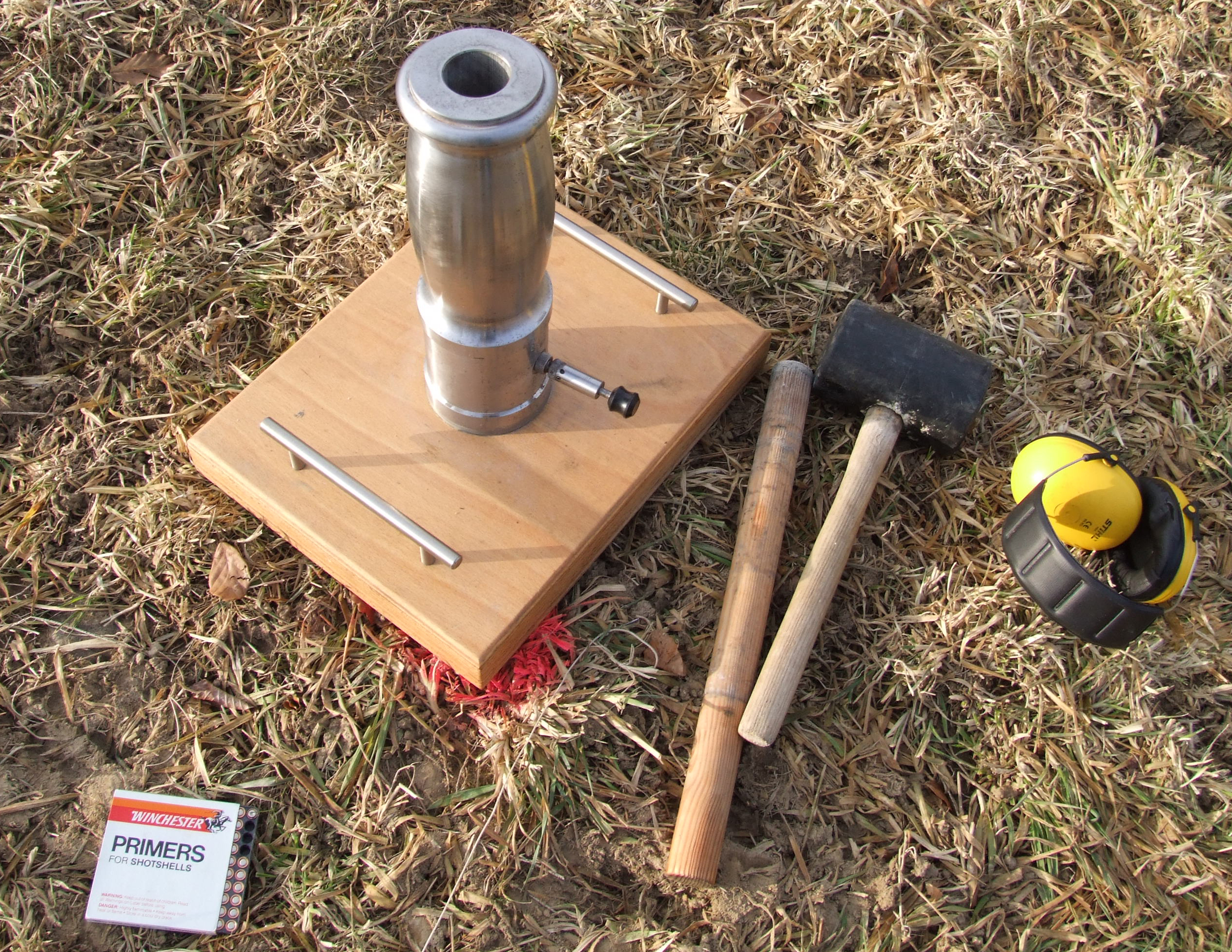 salute gun with ramrod and mallet. Seen in Nußdorf a part of Überlingen, Germany